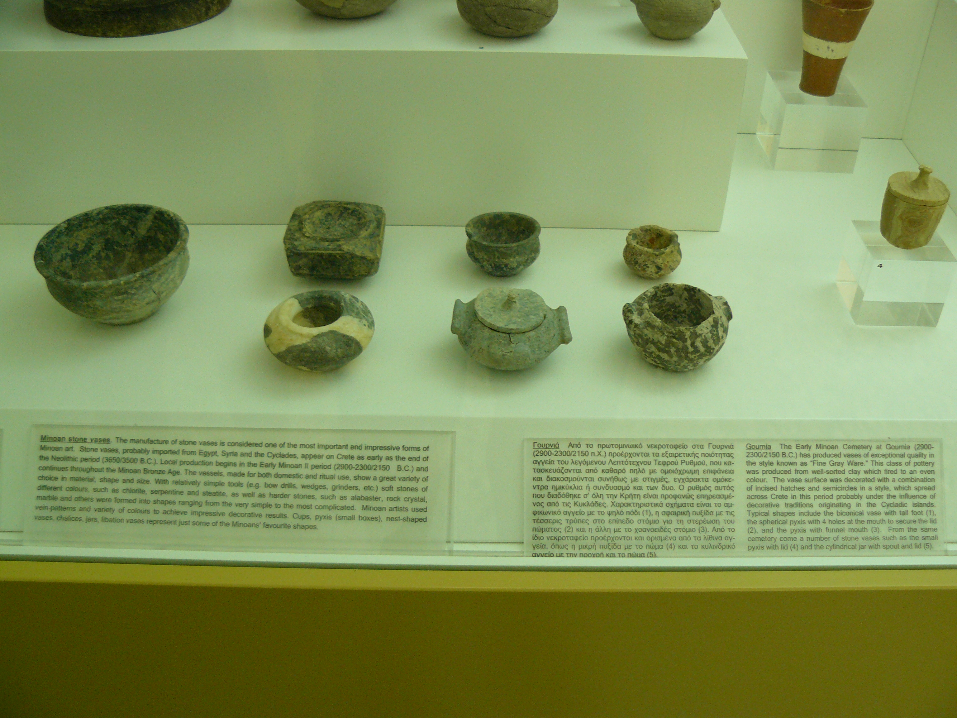 Archaeological museum of Agios Nikolaos, Crete: Early Minoan stone vases (EM II, 2900-2300/2150 BC) found at the cemetary at the north of Gournia by Costis Davaras in the years 1971-1972.